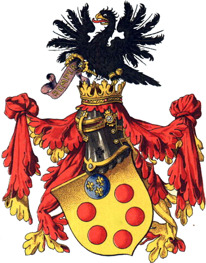 The heraldic achievement of the House of de' Medici. [1]